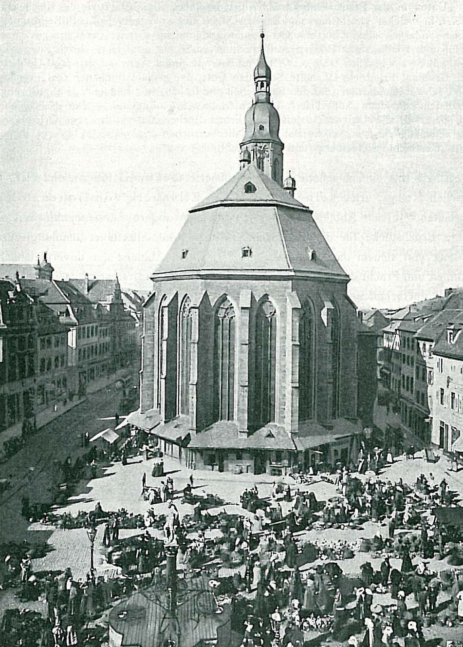 historical view of Heidelberg